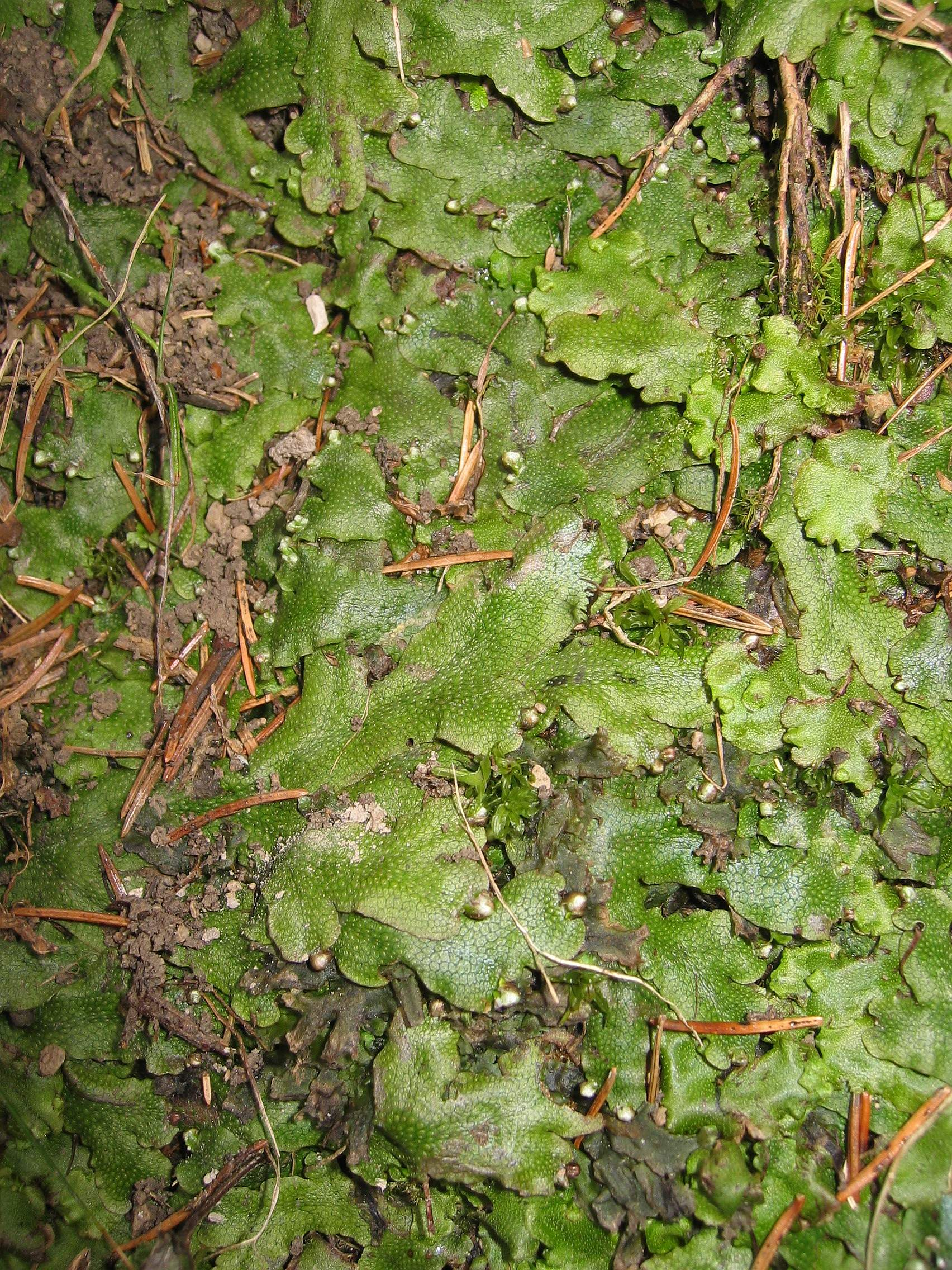 Cenocephalum conicum Hausbach, Upper Austria, Austria